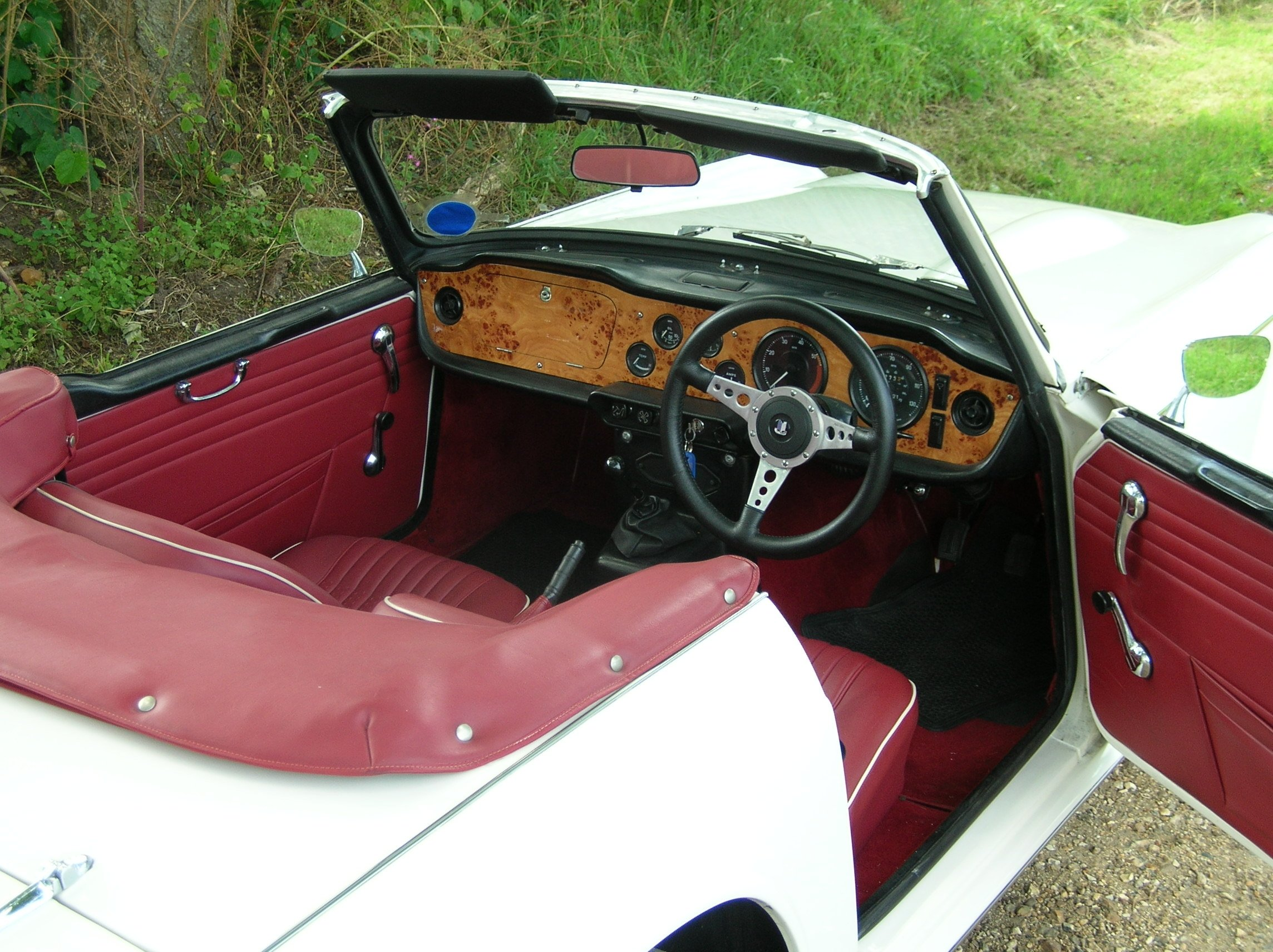 The interior of a 1969 Triumph TR5.